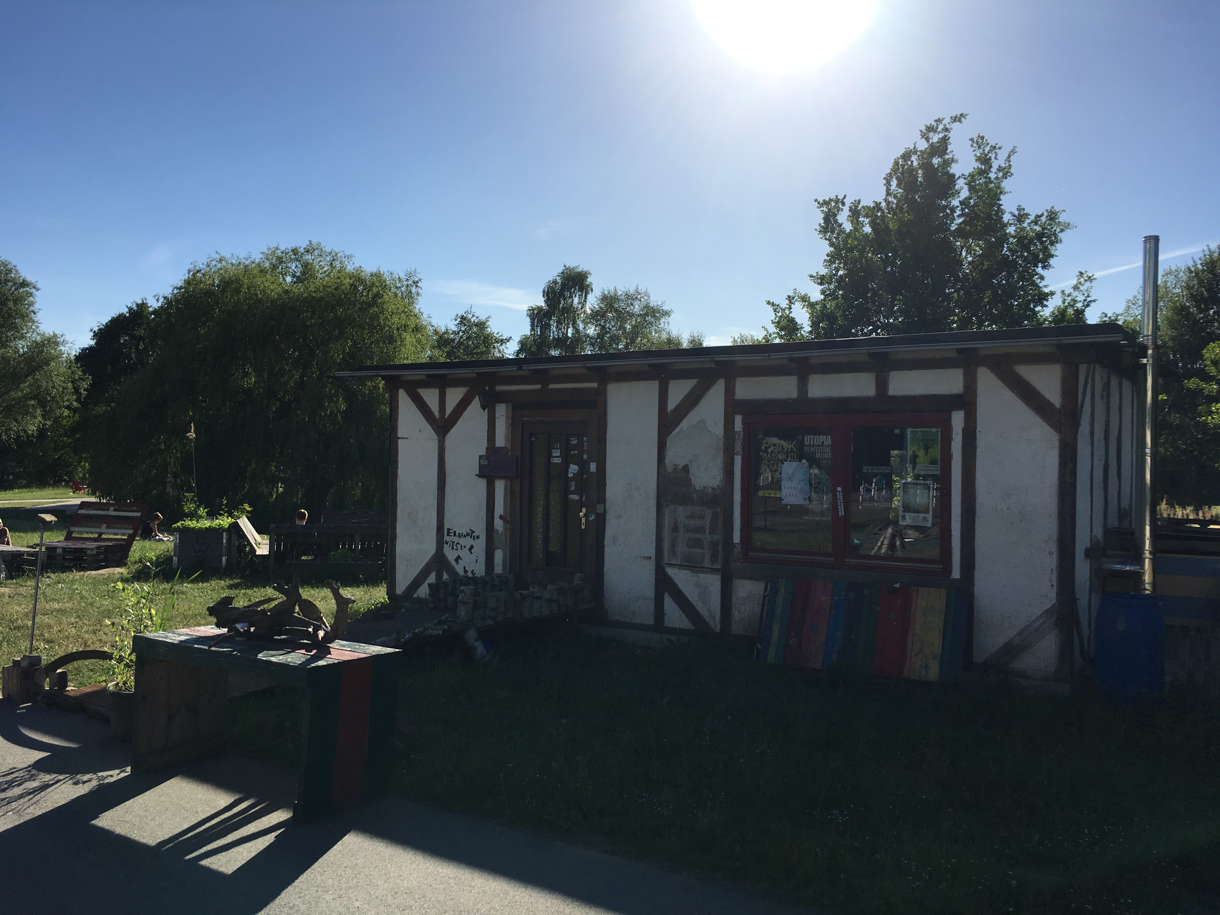 University of Bremen's GW3 building